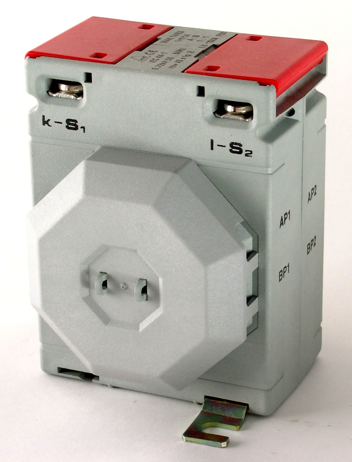 Current transformer